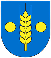 Rakvere valla vapp